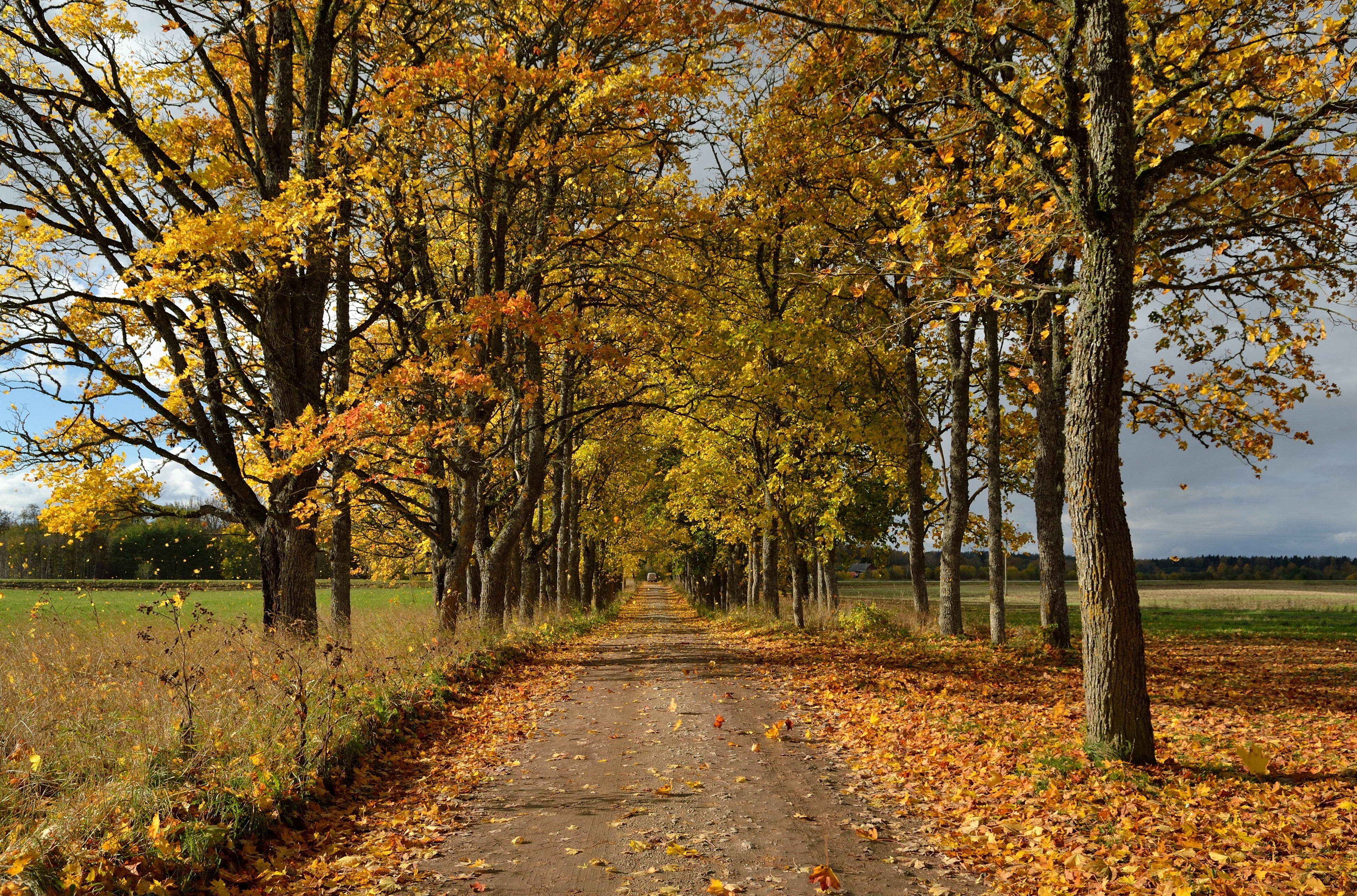 Neeruti manor avenue